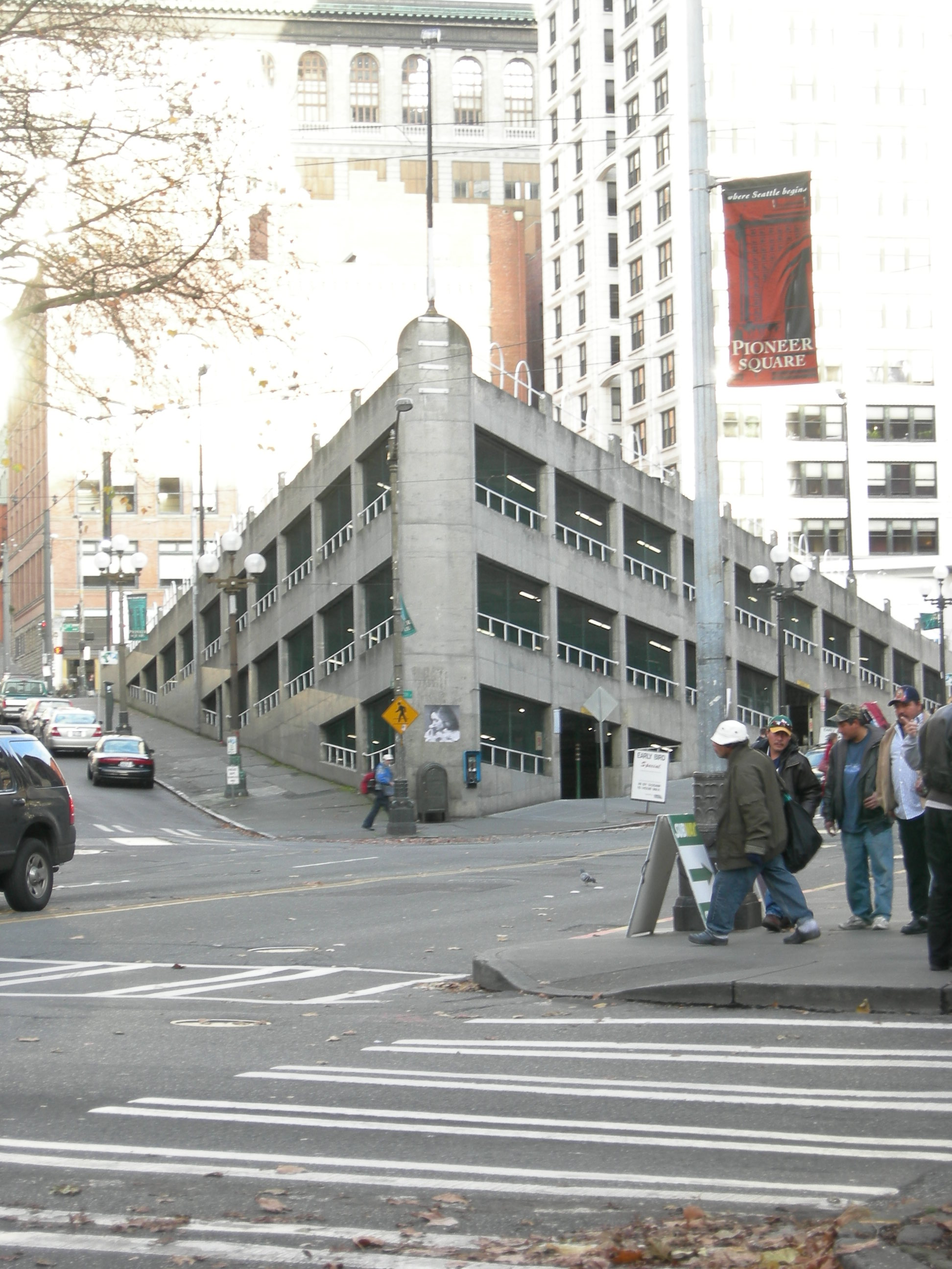 "Sinking ship" parking garage between James and Cherry Streets, Seattle, Washington. Seen here from Pioneer Square. For a broader view, see Image:Seattle - James St from Pioneer Square - A.jpg.